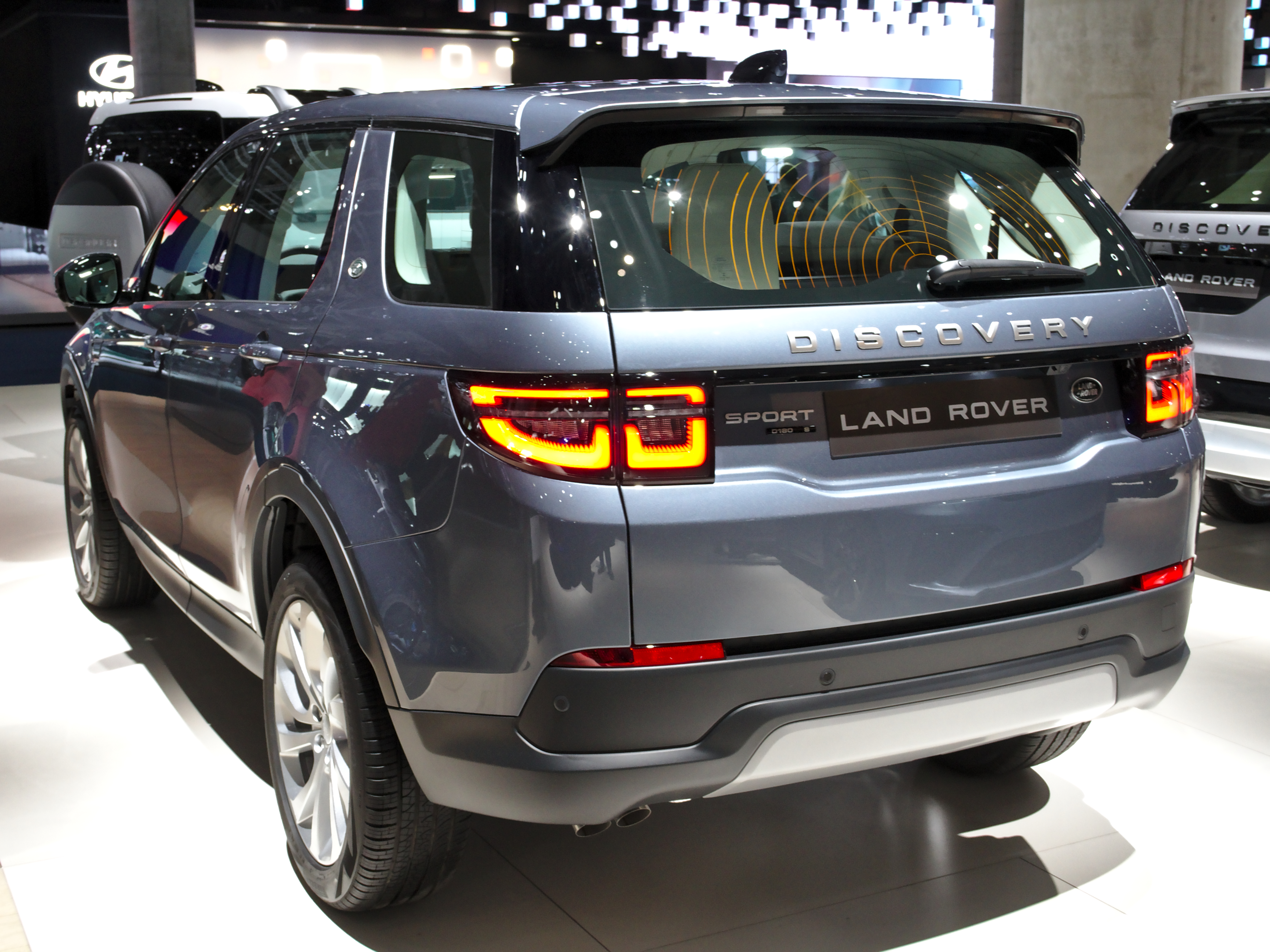 Land_Rover_Discovery_Sport at IAA 2019